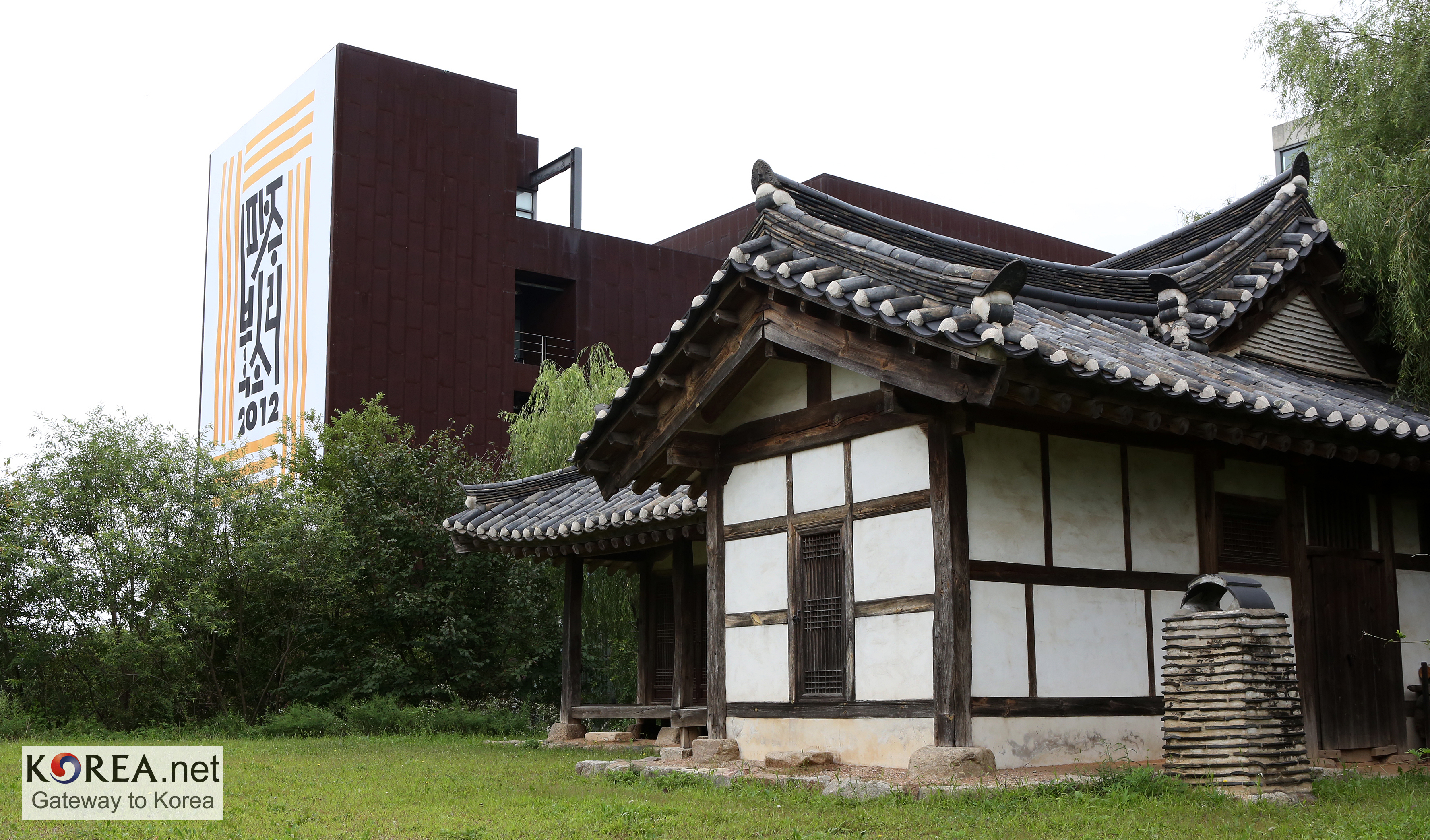 Paju Book City